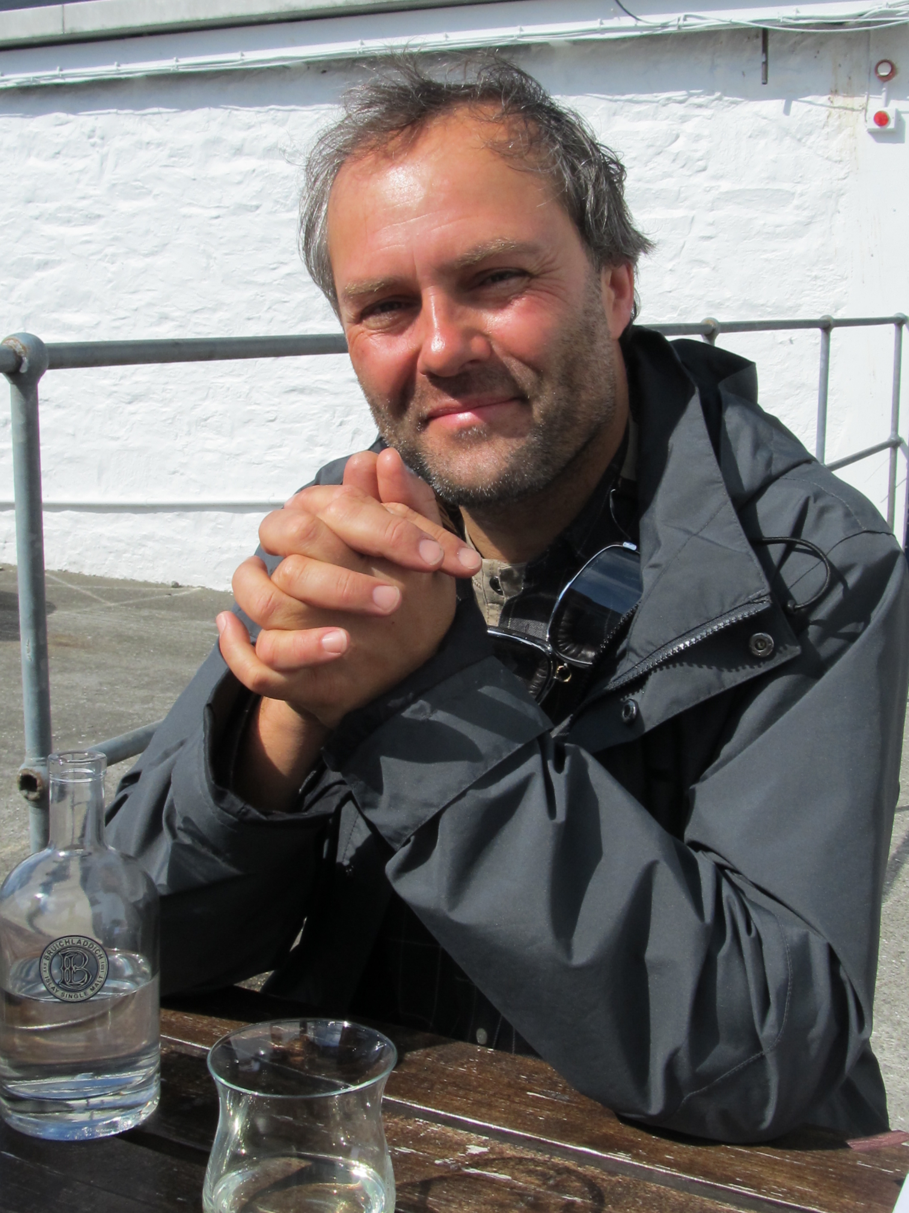 Ben Birdsall at Bruichlacdih